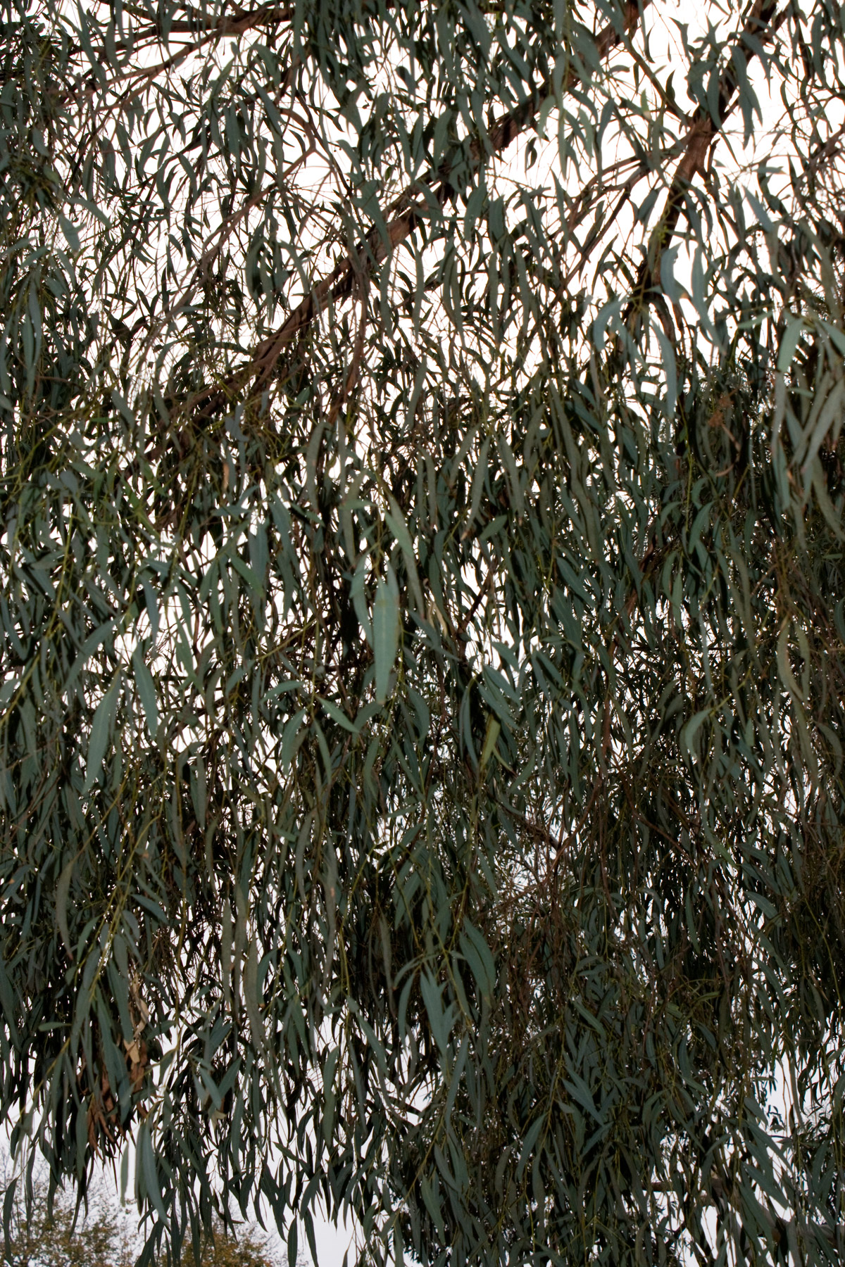 Willow Peppermint is a small to medium sized tree with persistent, rough bark to small branches. The bark is fibrous, coarsely fissured longitudinally, yellowish-brown to grey-brown with red-brown underlayers. Adult leaves are stalked, narrow-lanceolate, to 13-12 cm long, 1 cm wide, concolorous and dull, grey-green. White flowers appear in late summer to early autumn. This tree is very widely planted as an ornamental in south-eastern Australia, the fine, dense foliage being particularly attractive.